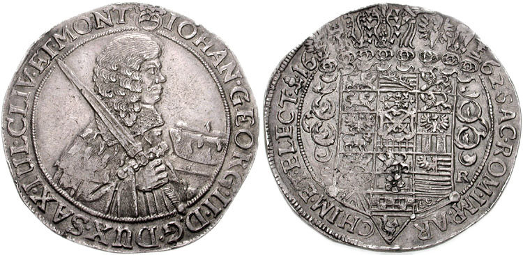 GERMANY, Saxony. Johann Georg II. 1656-1680. AR Taler (29.05 g, 10h). Dresden mint. Dated 1662. Bust of Johann Georg II right, holding sword, cap before / Helmeted coat of arms. Davenport 7617; KM 474. EF, toned, minor edge mark.